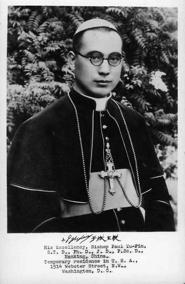 Paul Yu-Pin